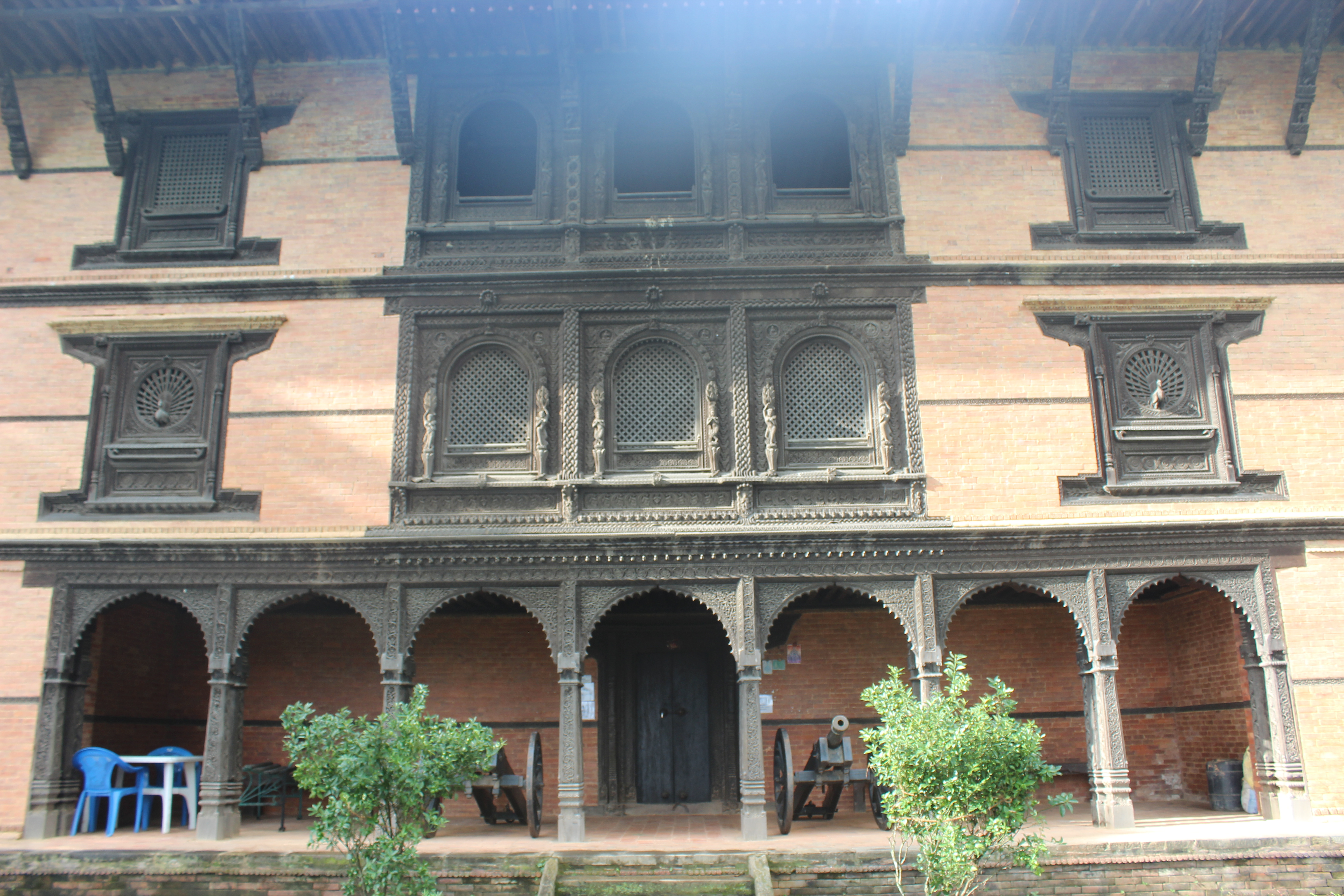 This is one of the most important palace of Gorkha known as tallo durbar and Gorkha Museum